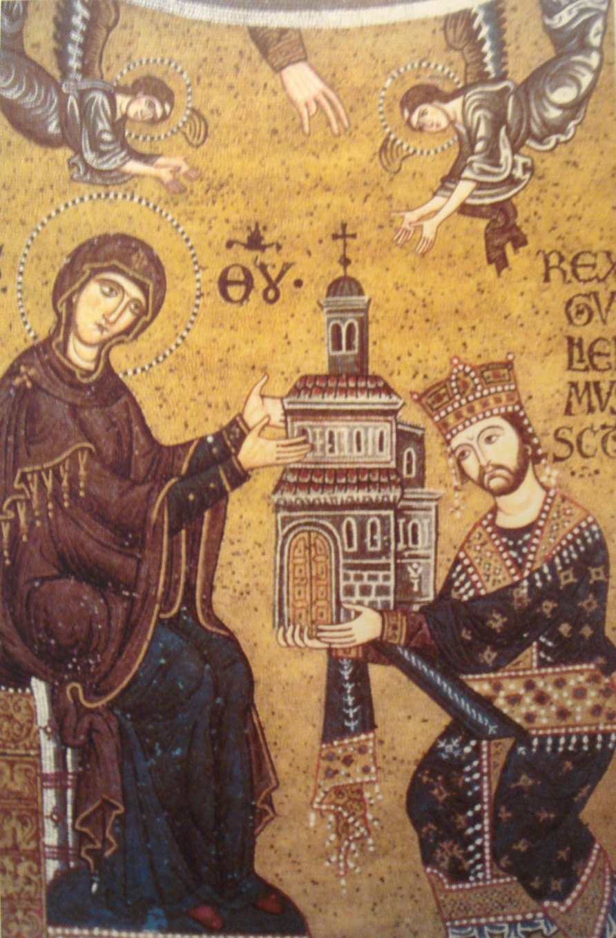 William II Of Sicily offering a church to the Virgin Mary